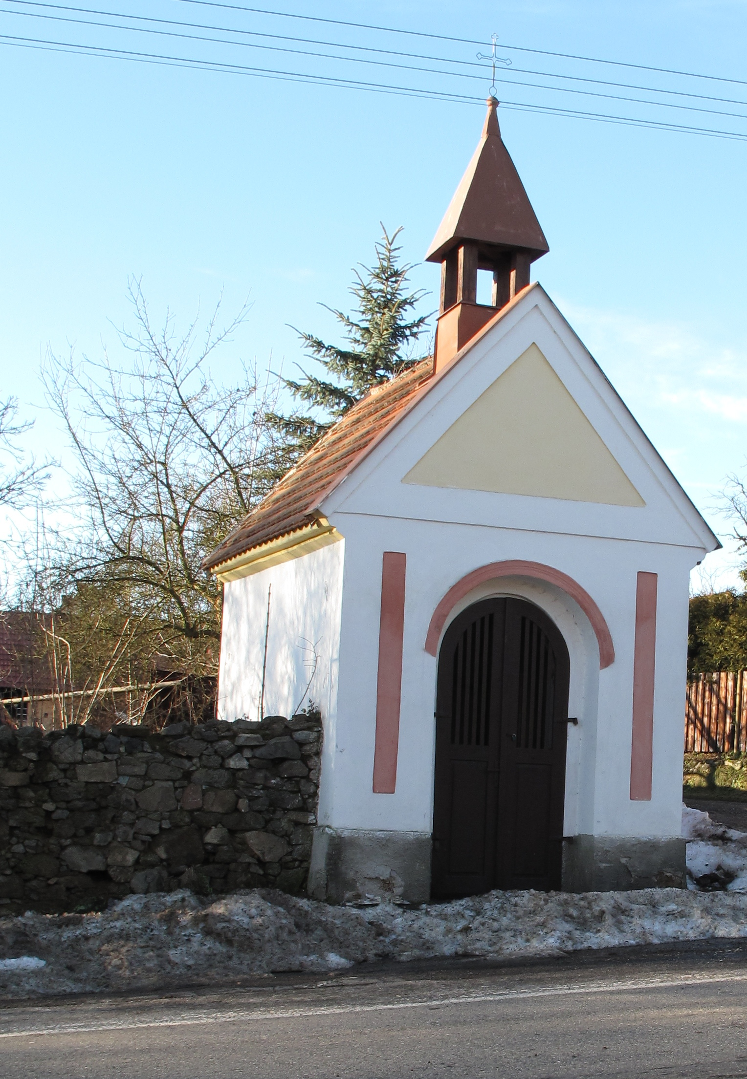 Chapel in Korkyně village, Příbram District, Czech Republic.